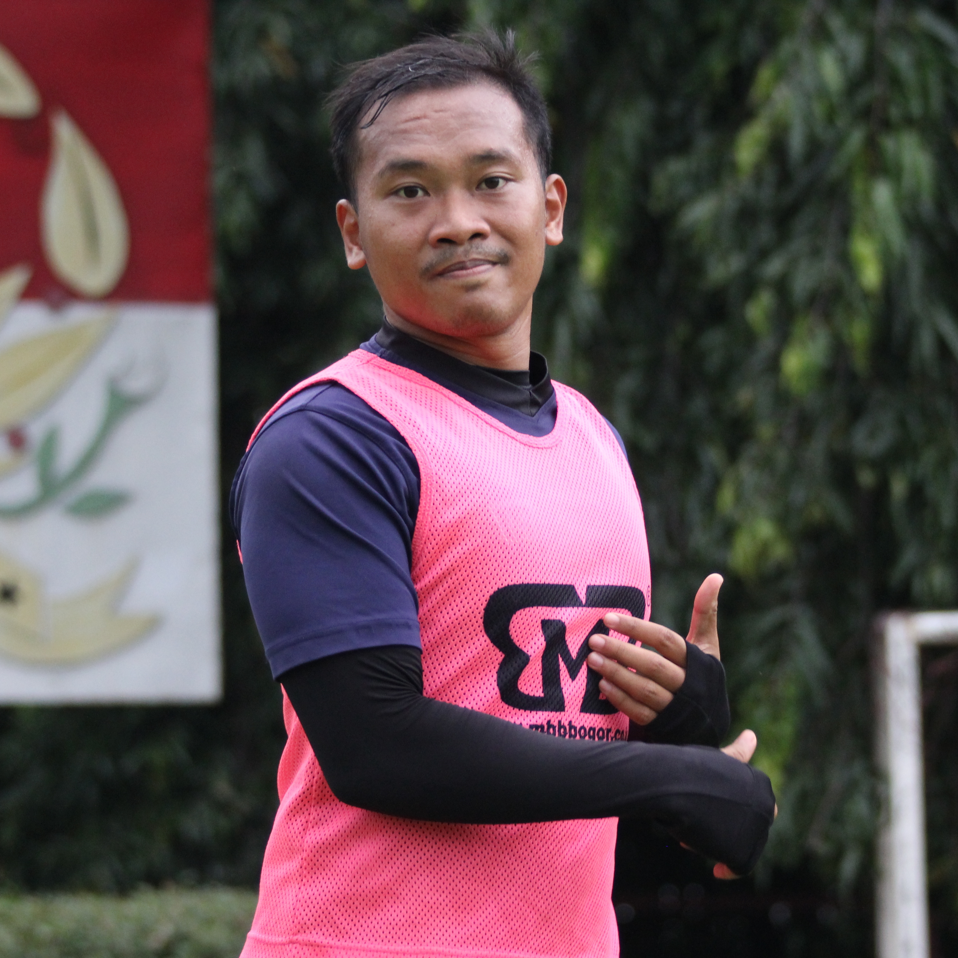 PS Tira player, Wawan Febriyanto